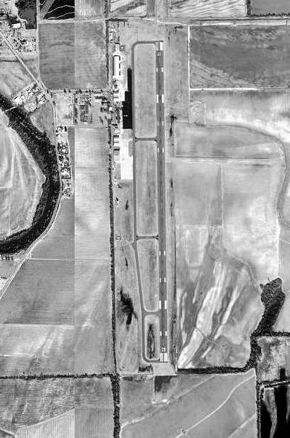 USGS digital orthophoto of Grider Field, an airport in Pine Bluff, Arkansas, United States